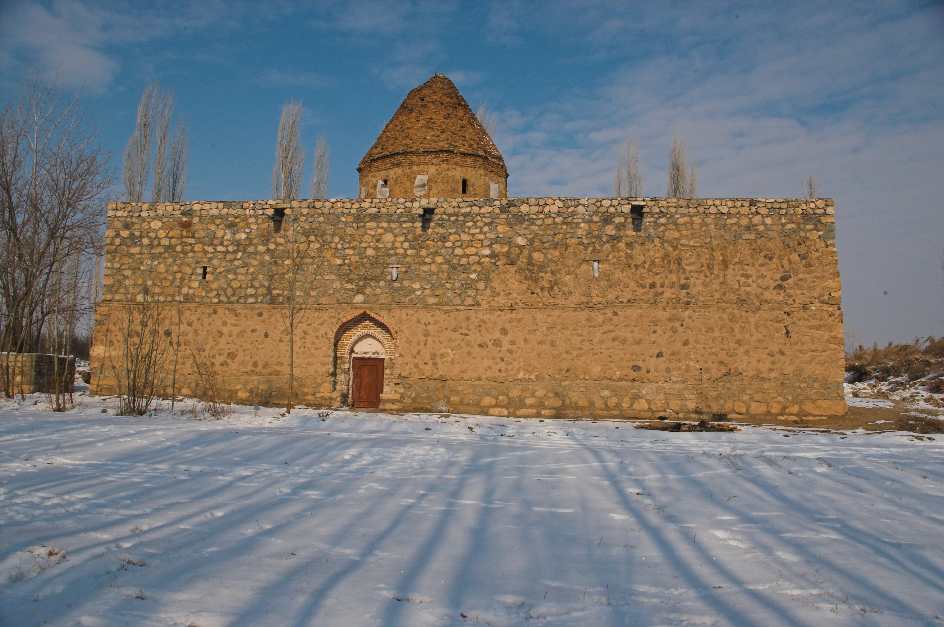 Mahlezan Church, located on the outskirts of Khoy, north-western Iran.